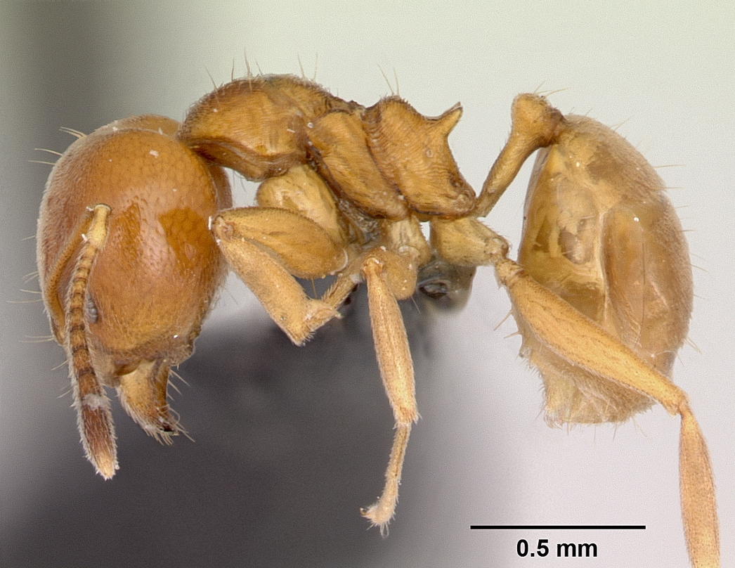 Profile view of ant Aneuretus simoni specimen casent0007014.